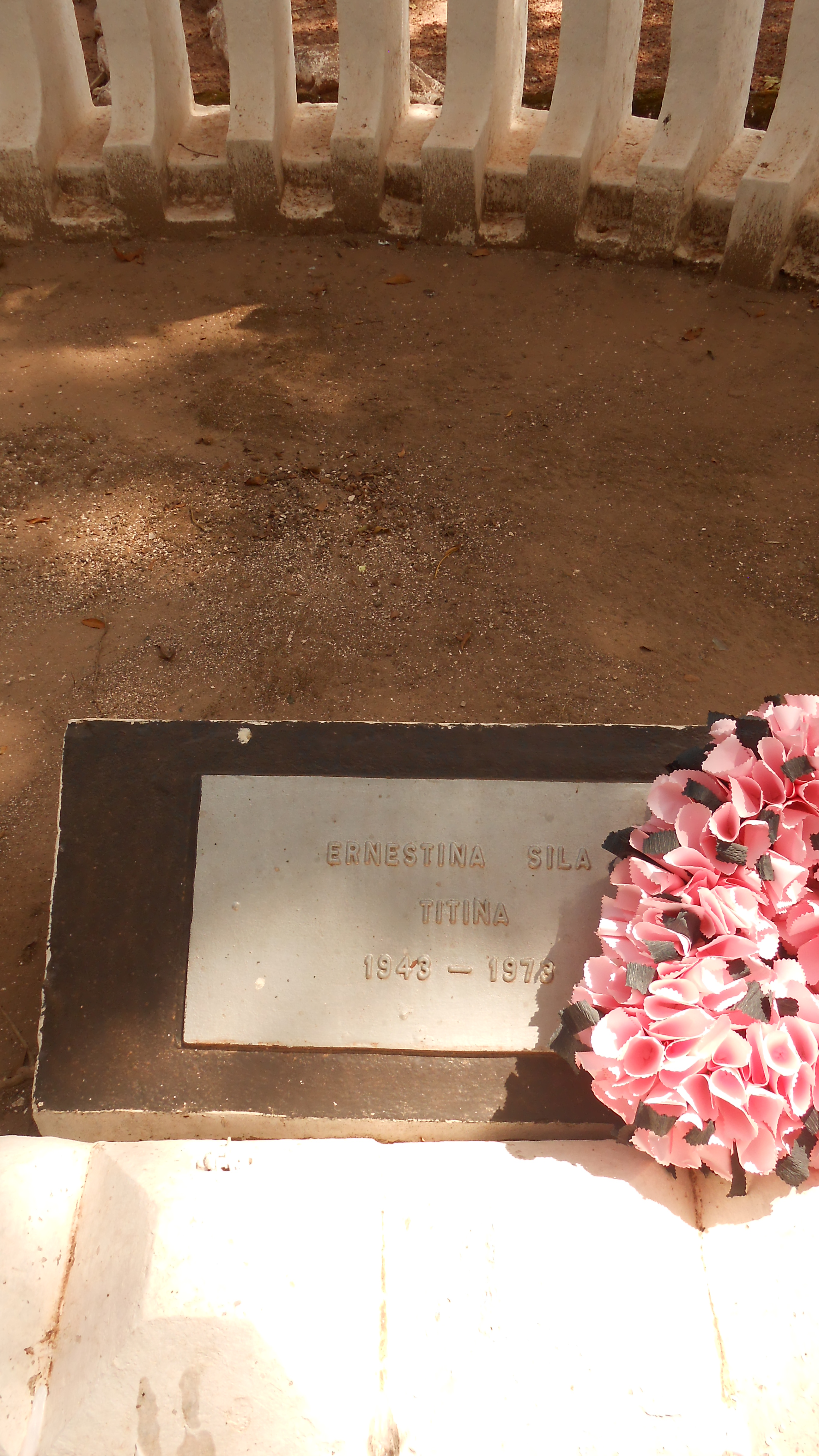 The grave of Titina Silá at the national heroes memorial Heróis da Pátria next to the Amílcar Cabral mausoleum inside the Fortaleza de São José de Amura fortress in the centre of Bissau city.